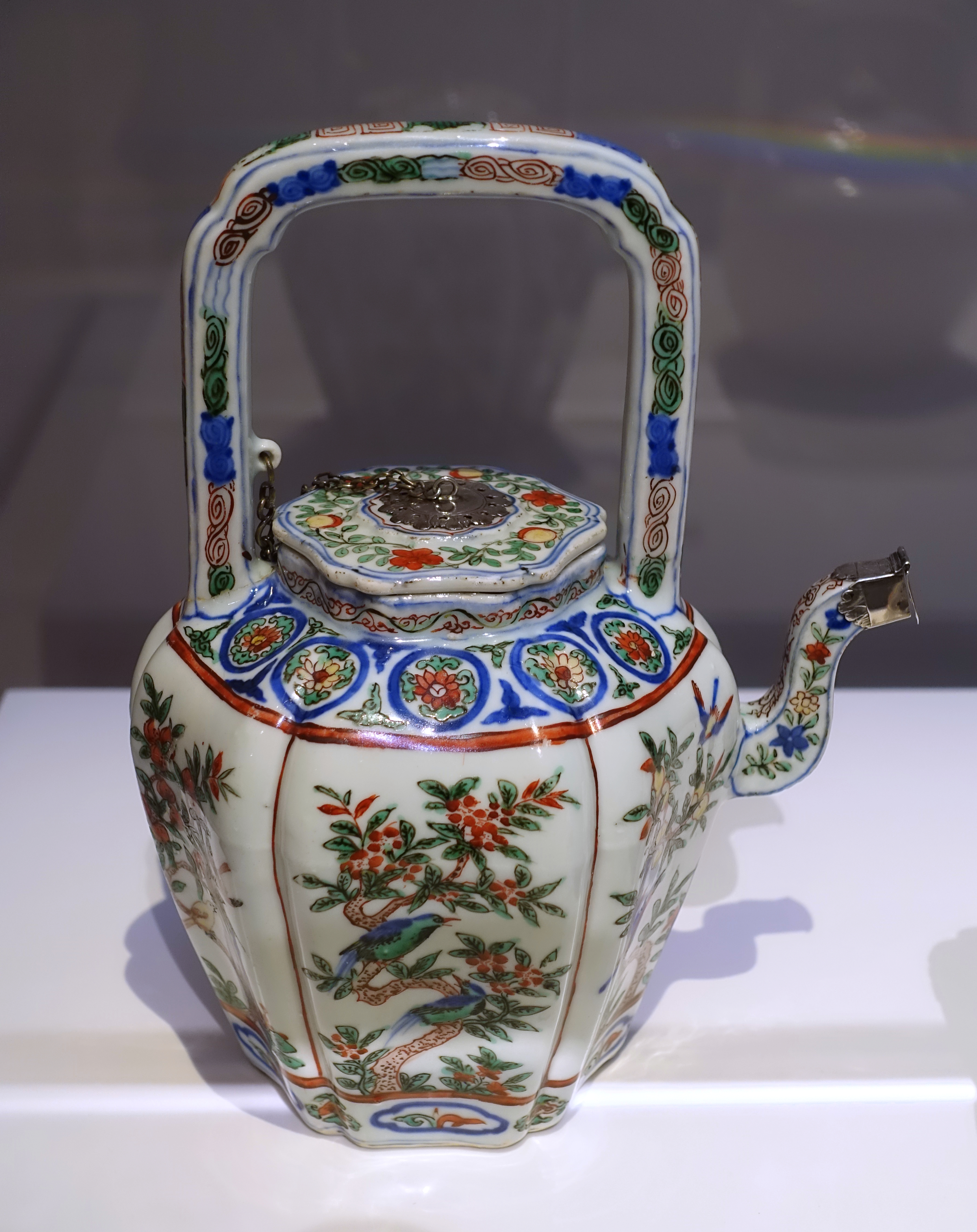 Exhibit in the Peabody Essex Museum - Salem, Massachusetts, USA.